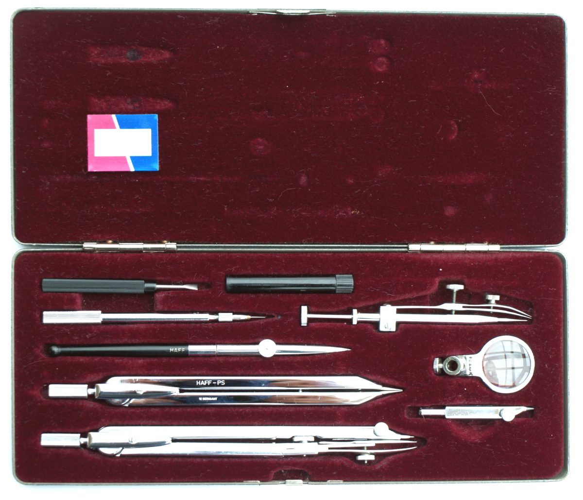 Cartographers Compass Set. Foto made by me (Fantagu)